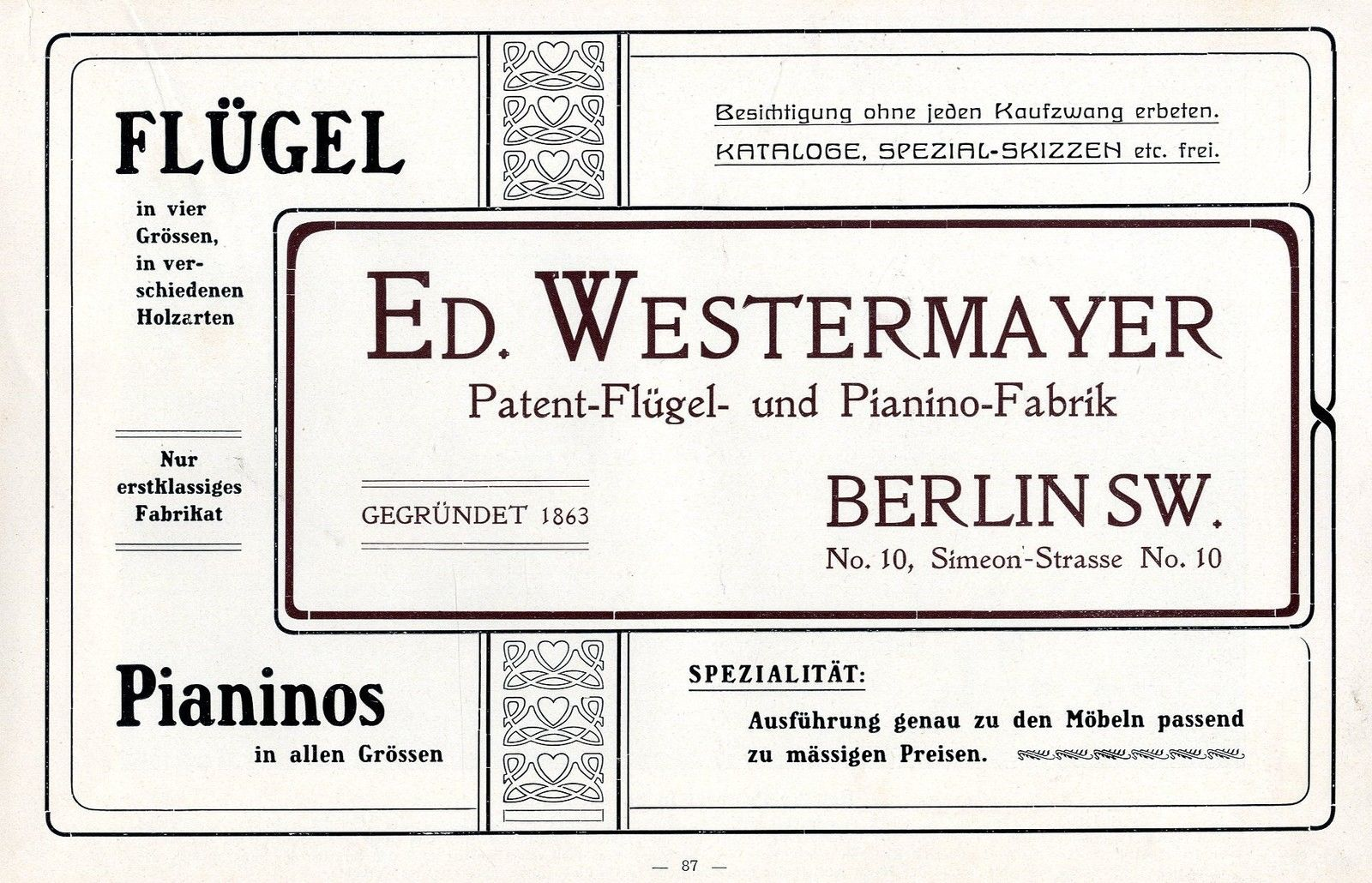 Advertisement of Ed. Westermayer, piano manufacturer in Berlin, founded in 1863. Address at Simeonstraße 10.